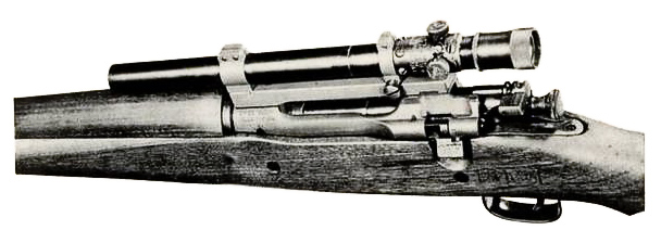 Rifle M1903A4 + Lyman M73B1 Telescope